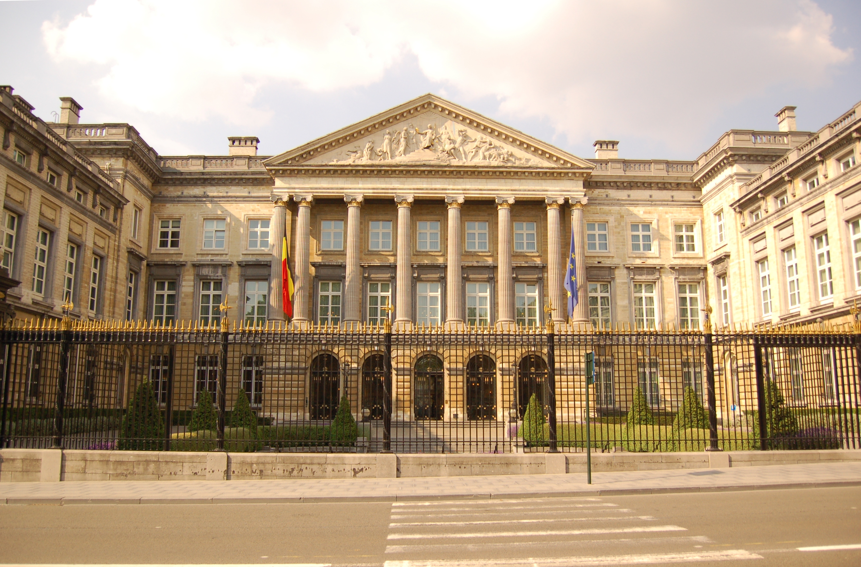 Belgian Federal Parliament - Brussels